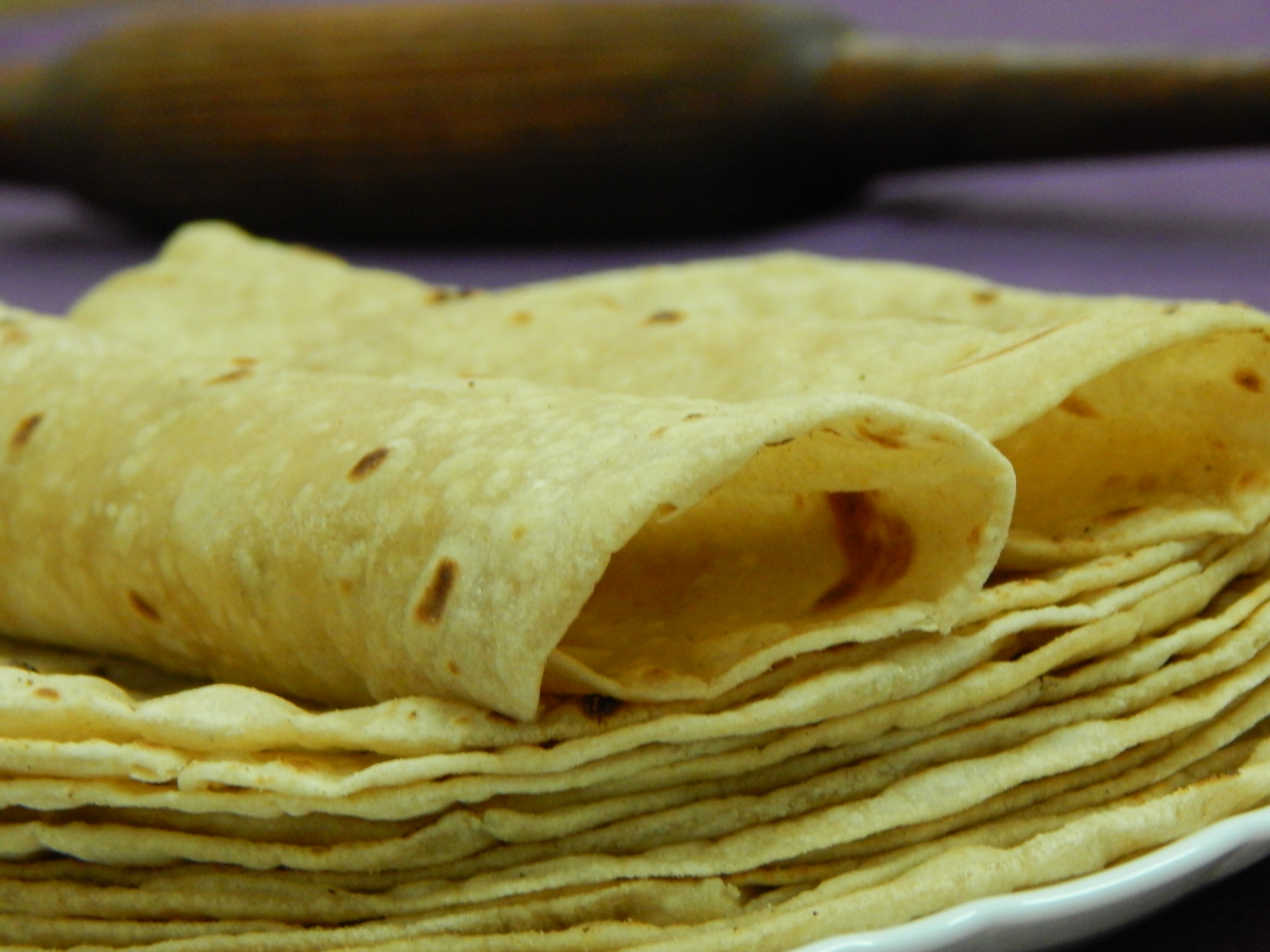 Roti - Perfect Gujarati Fulka Roti